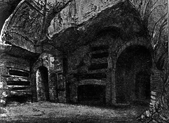 Crypt of S. Caecilla showing corridor Catacomb of Callistus,Rome, Italy